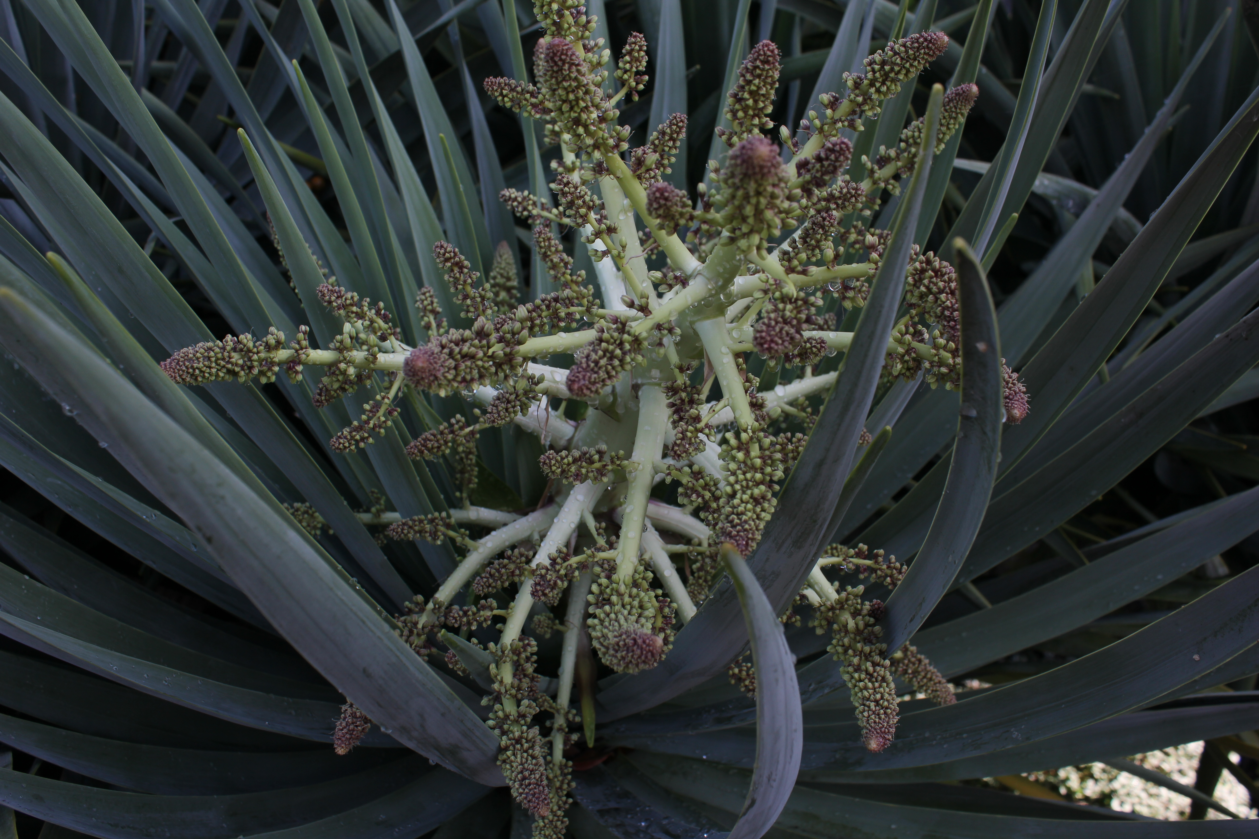 Inflorescence branch, bud stage